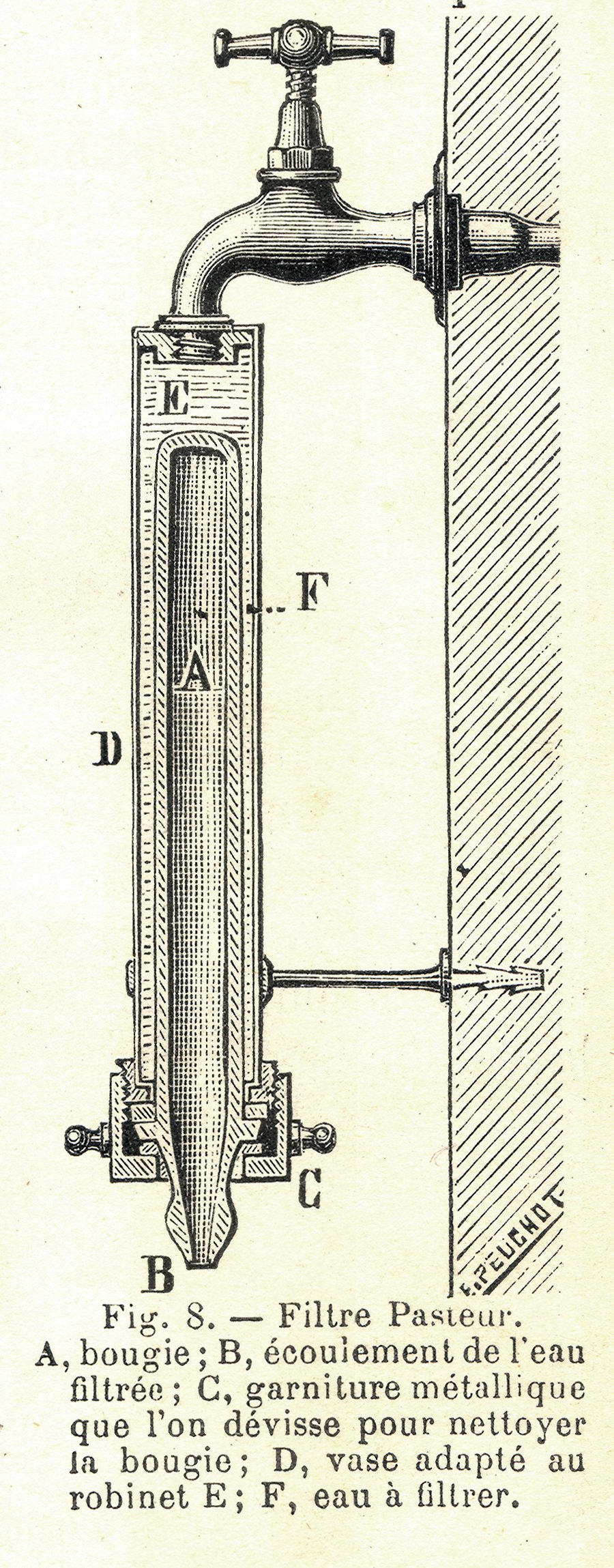 Pasteur water filtre. Picture scanned in : Leçons élémentaires de chimie (B.Bussard, H.Dubois). 1906, page 13.